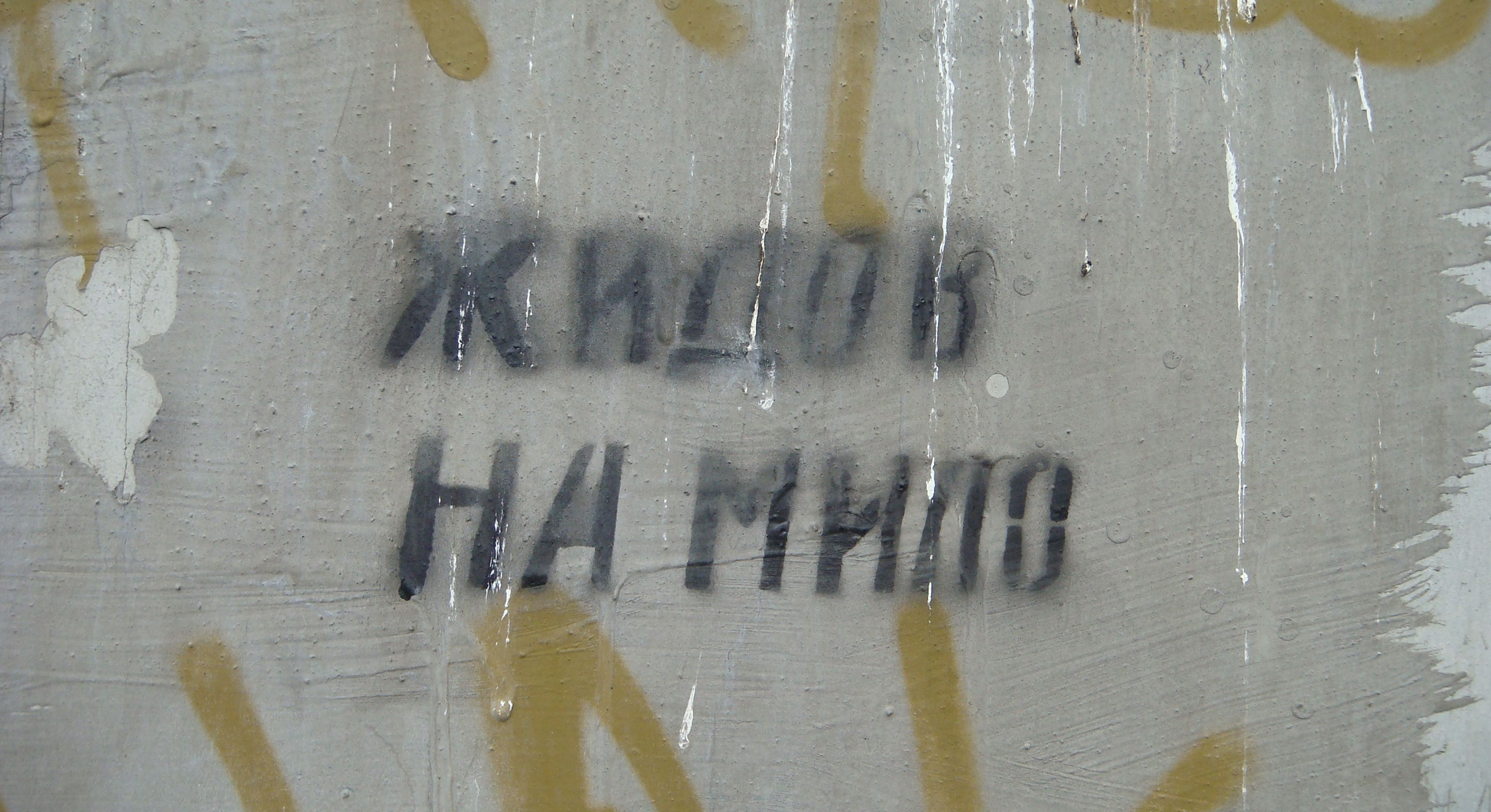 Antisemithic graffiti in Odessa. Photo made on Zhukovskogo street just in front of the monument to Isaak Babel. Slogan saying (in Russian): "Out with the jews". Literal meaning: "Jews should be used for soap"